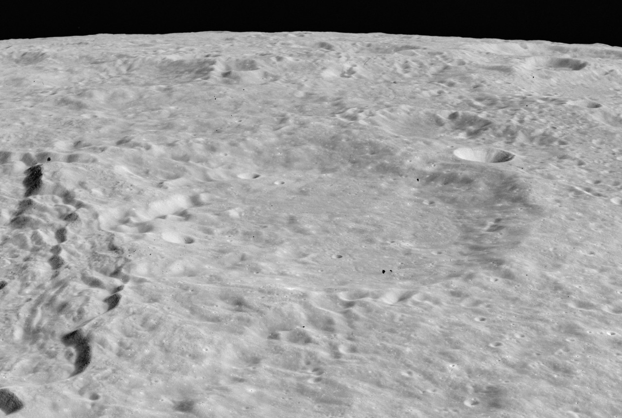 Oblique view of Phillips, on the moon, facing south.